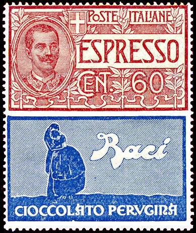 Express mail postage stamp of Italy, Vittorio Emmanuel III, with advertising Baci Cioccolato Perugina, 60 centesimi, 1924, scott#E3